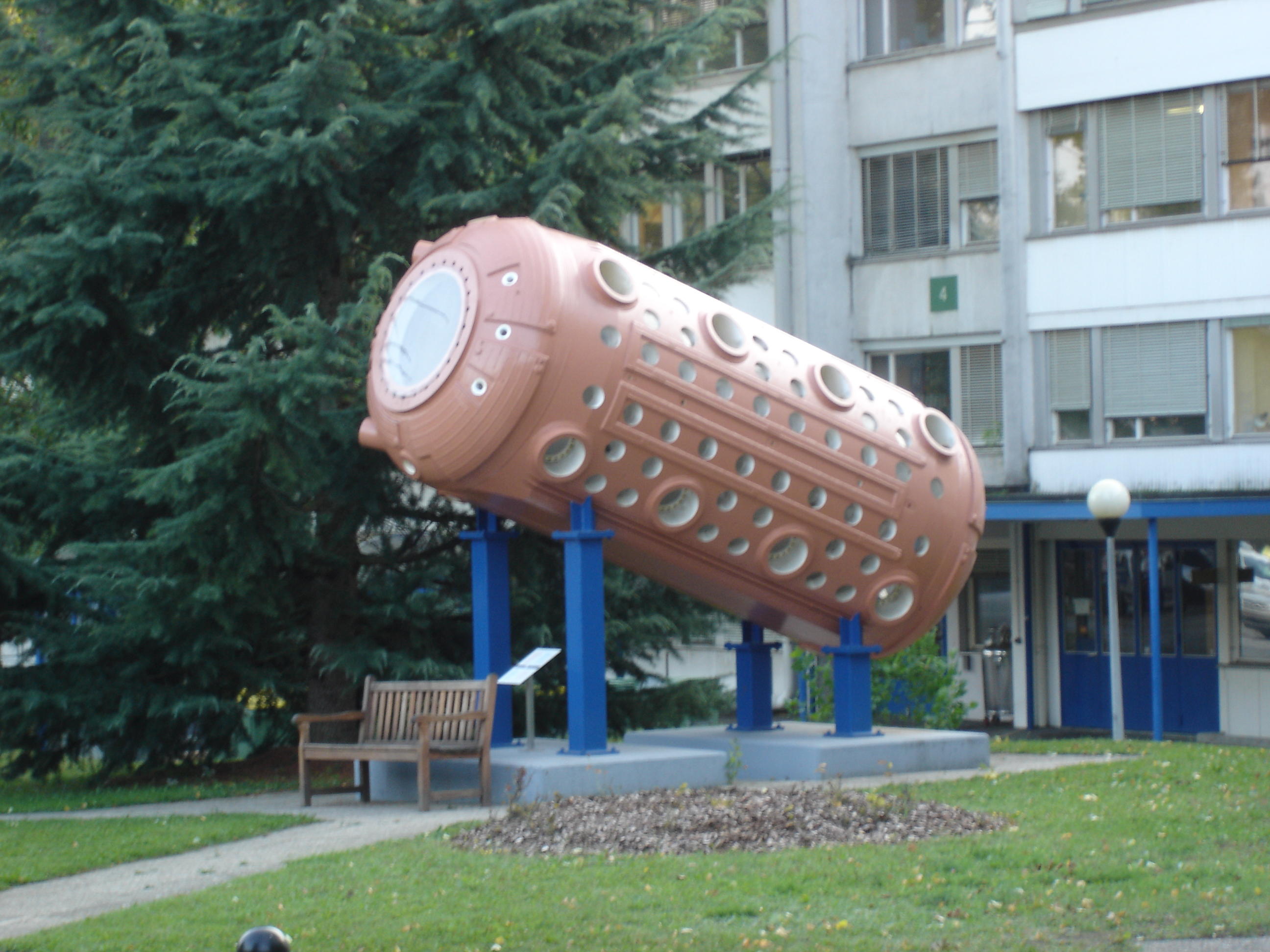 Gargamelle